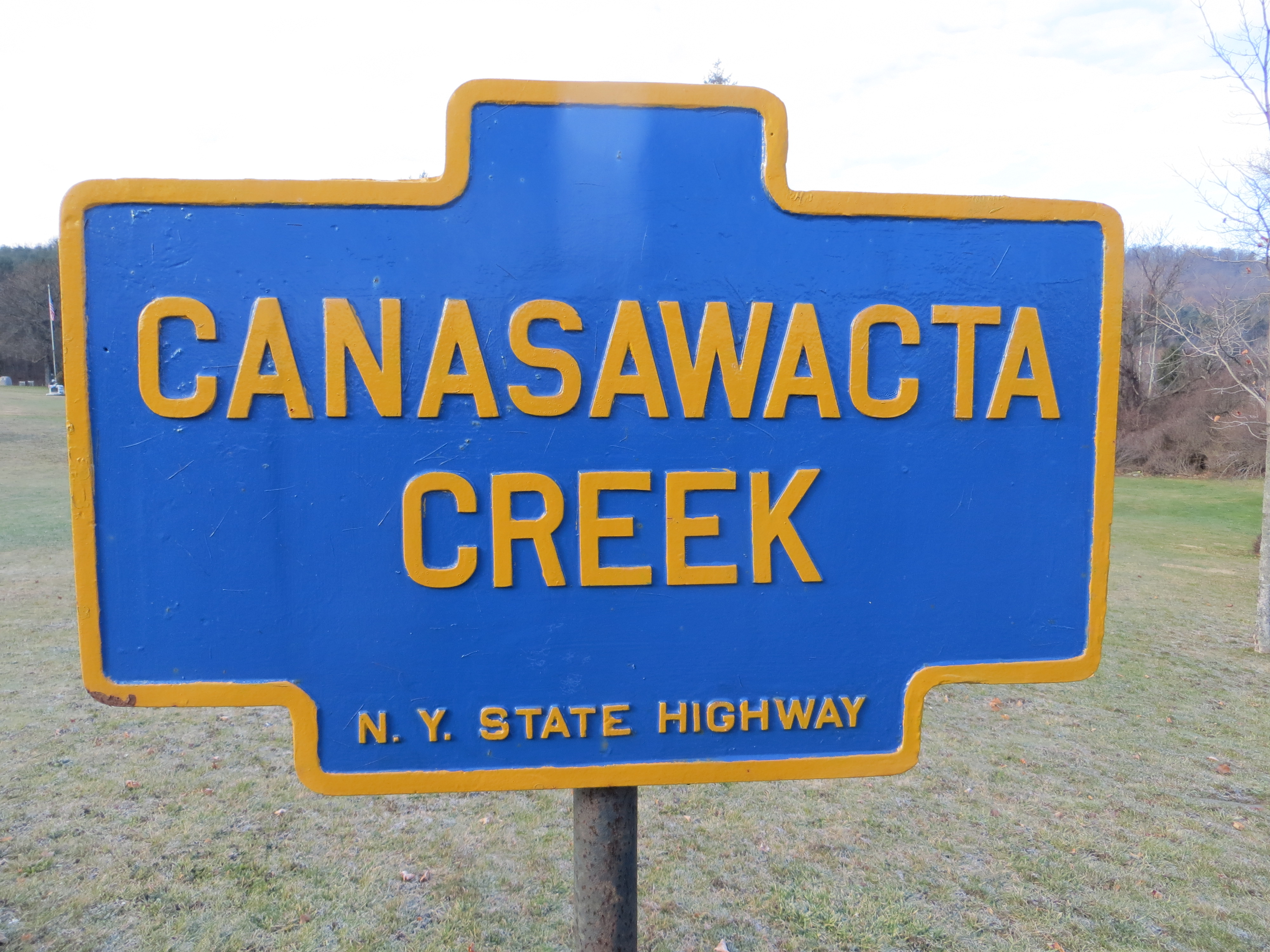 Canasawacta Creek, Norwich NY